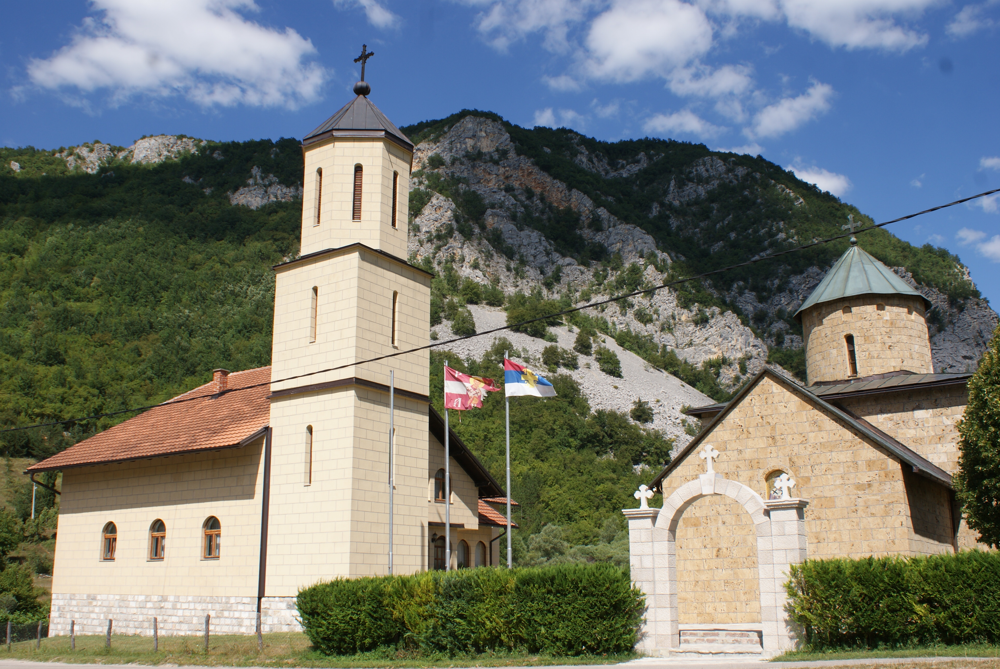 MANASTIR RMANJ